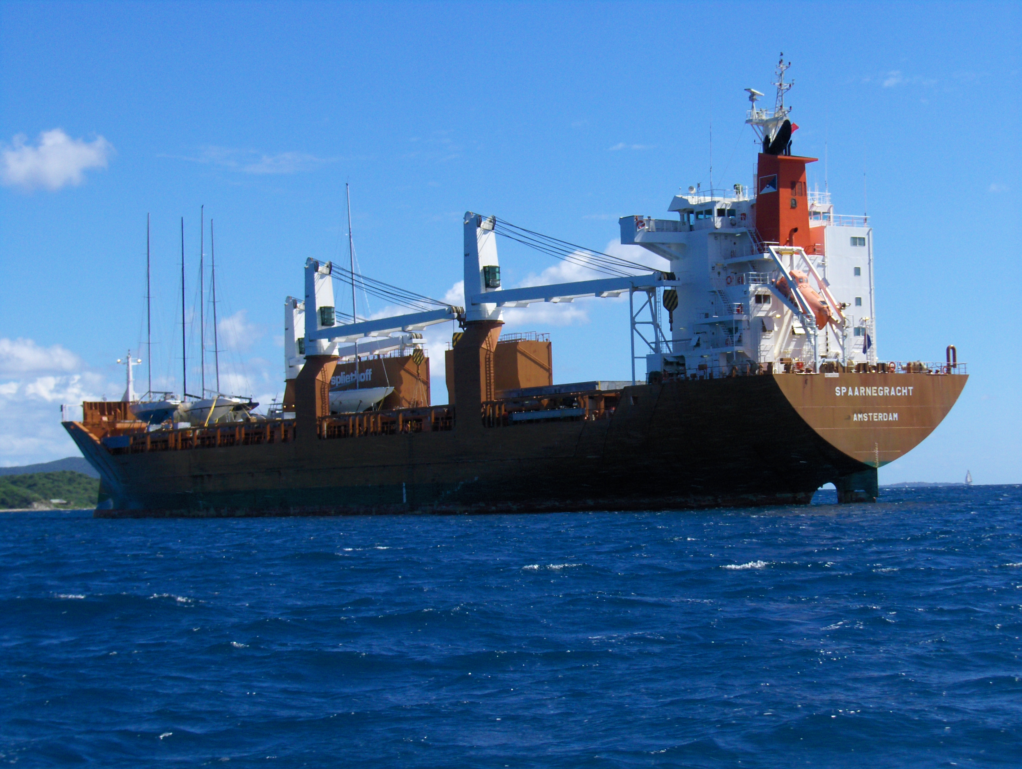 I was wondering why the ship had such fancy lifeboats, until I figured out that it must be transporting sailboats. (I guess they didn't want to simply sail the sailboats over from Amsterdam or wherever they came from.)